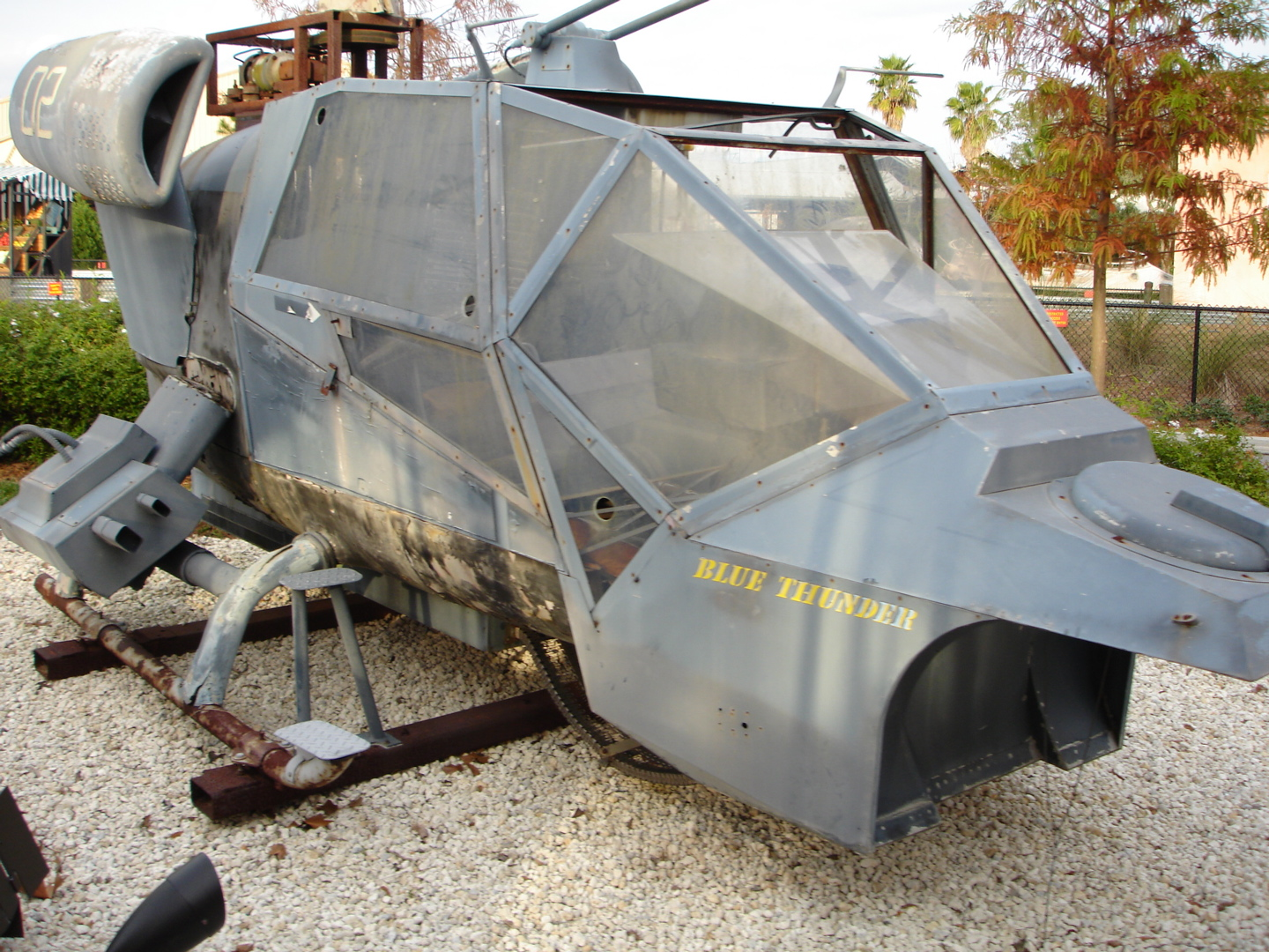 Blue Thunder, MGM Studios Back-lot tour. (Right 3/4 view)